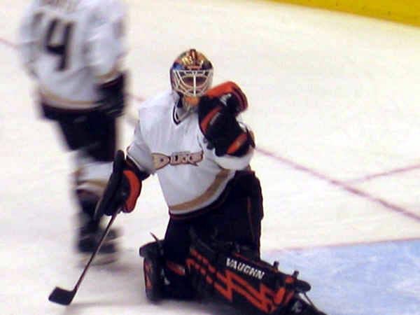 Anaheim Ducks goaltender Ilya Bryzgalov warming up at GM Place before playing the Vancouver Canucks in Game 4 of the Western Conference Semi-finals during the 2007 Stanley Cup Playoffs.